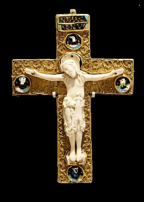 Reliquary Cross About 1000 (back and sides 900-1000) England (figure) Germany (cross) Gold plaques on a cedar base; walrus ivory for the figure of Christ Victoria and Albert Museum